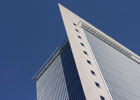 The Federal Reserve Bank of Dallas building.